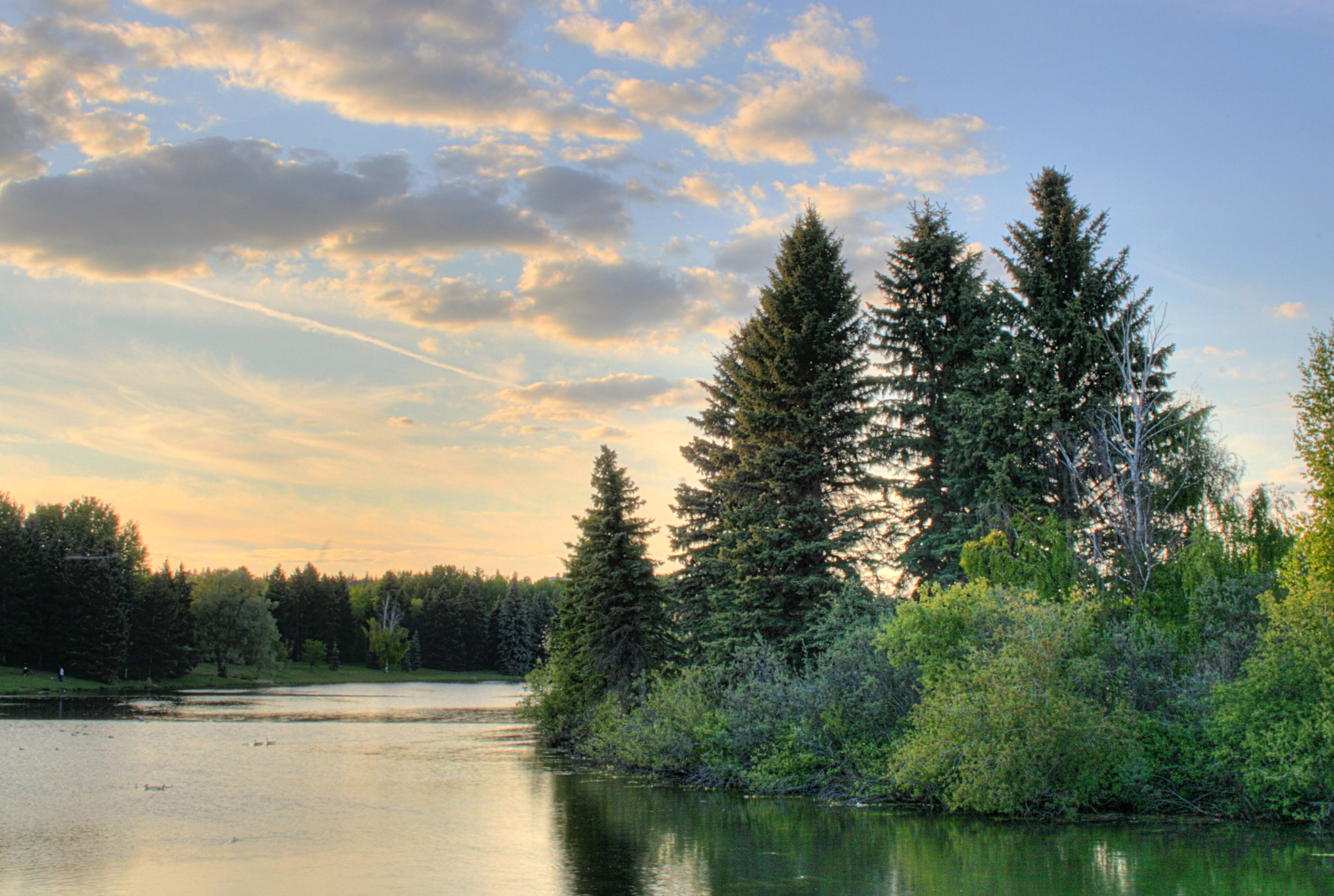 The ring lake in Hawrelak Park, Edmonton, Alberta, Canada.